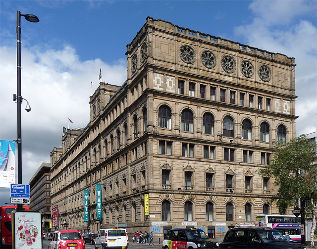 Pevsner remarks that the building "aptly encapsulates the spirit of self-confidence mixed with a touch of brashness". It is based on the Fondaco dei Turchi in Venice. Four prominences on the skyline, varying motifs to each floor. Built 1855-58 and Grade II* listed